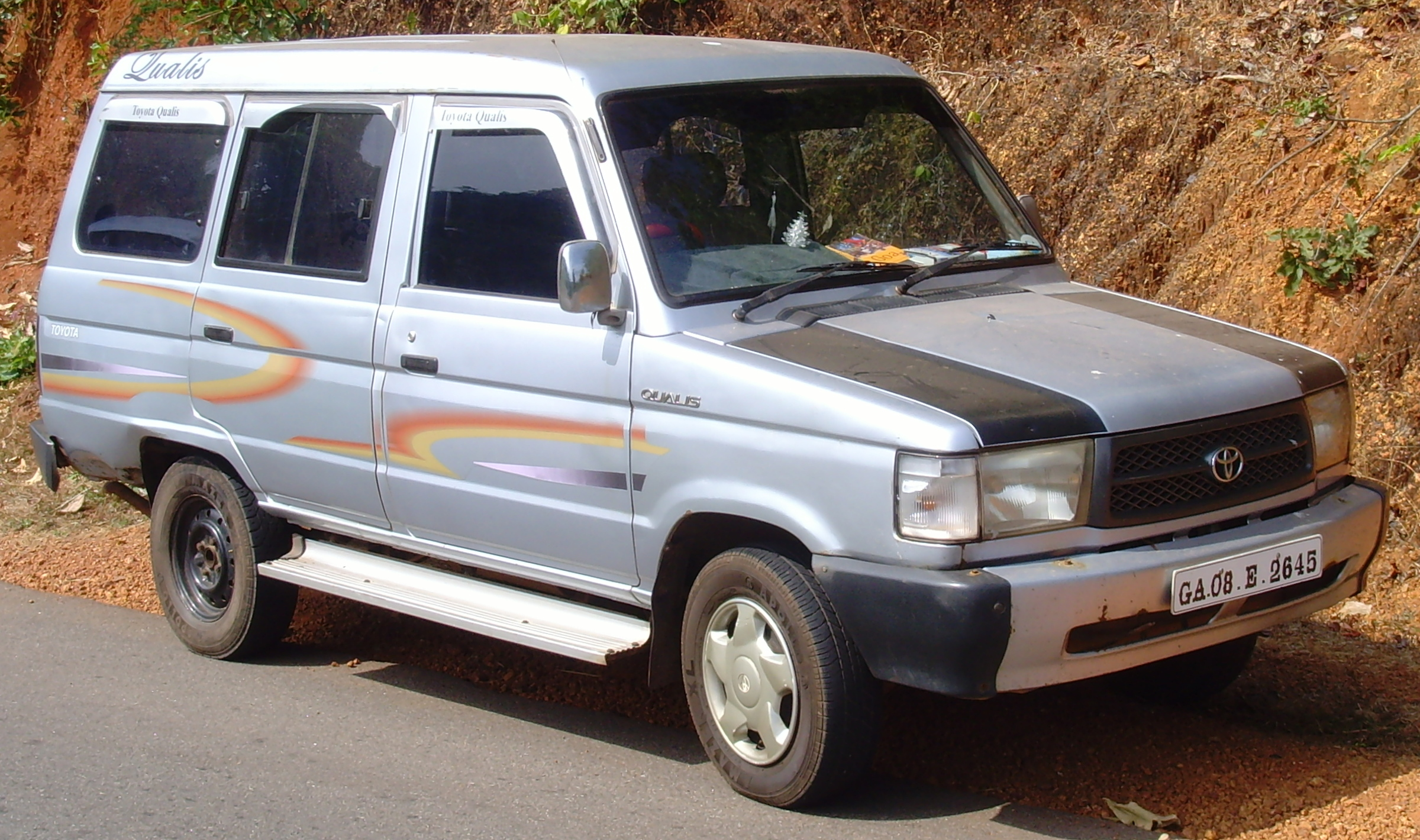 Toyota Qualis photographed in India